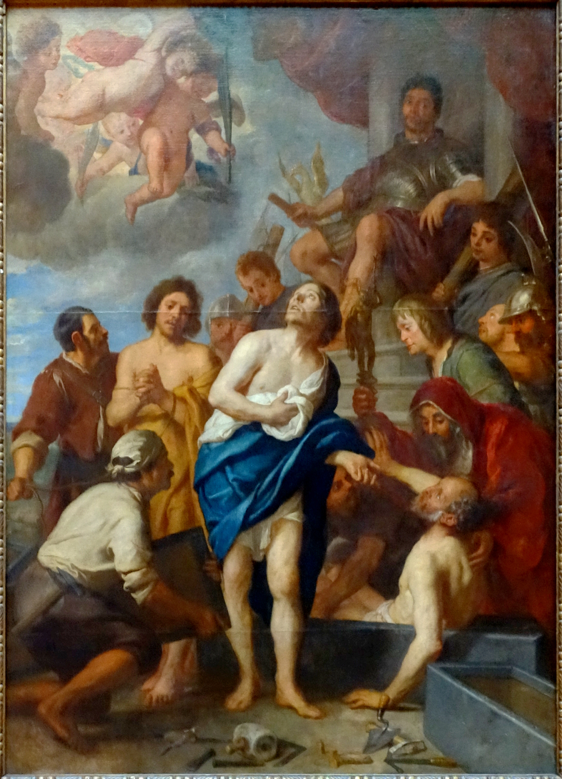 The martyrdom of the four crowned headslabel QS:Len,"The martyrdom of the four crowned heads"